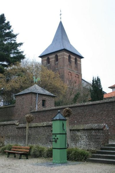 Cultural heritage monument No. 04 in Wassenberg